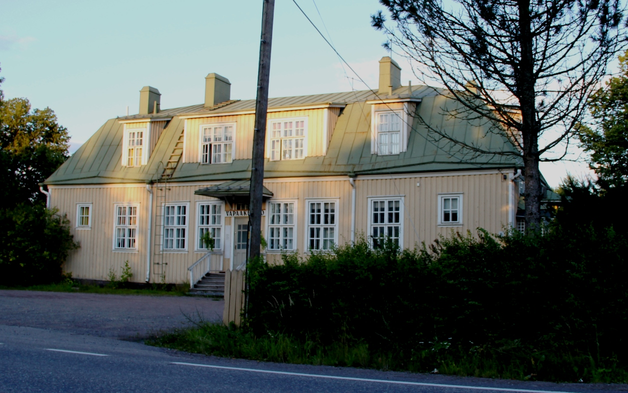 Nummela former railway station, in Vihti, Finland